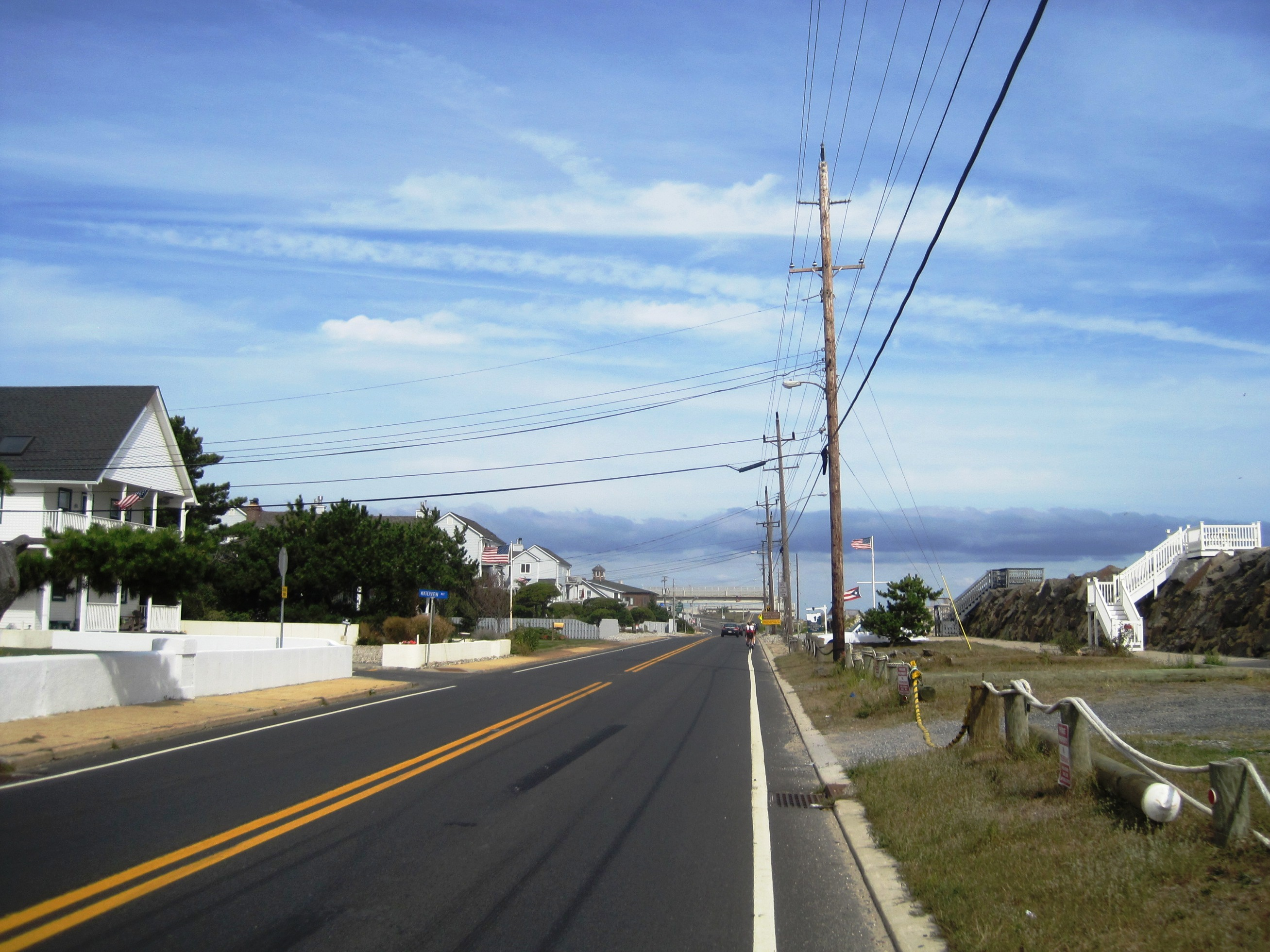 Photo showing Navesink Beach, New Jersey, an unincorporated community within Sea Bright. Photo taken along northbound New Jersey Route 36 at Waterview Way.